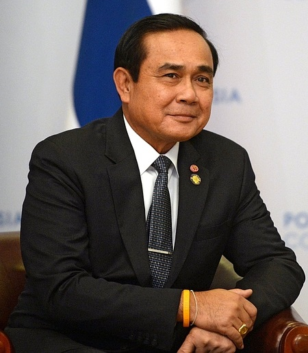 Vladimir Putin discussed bilateral cooperation prospects with Prime Minister of Thailand Prayut Chan-o-cha